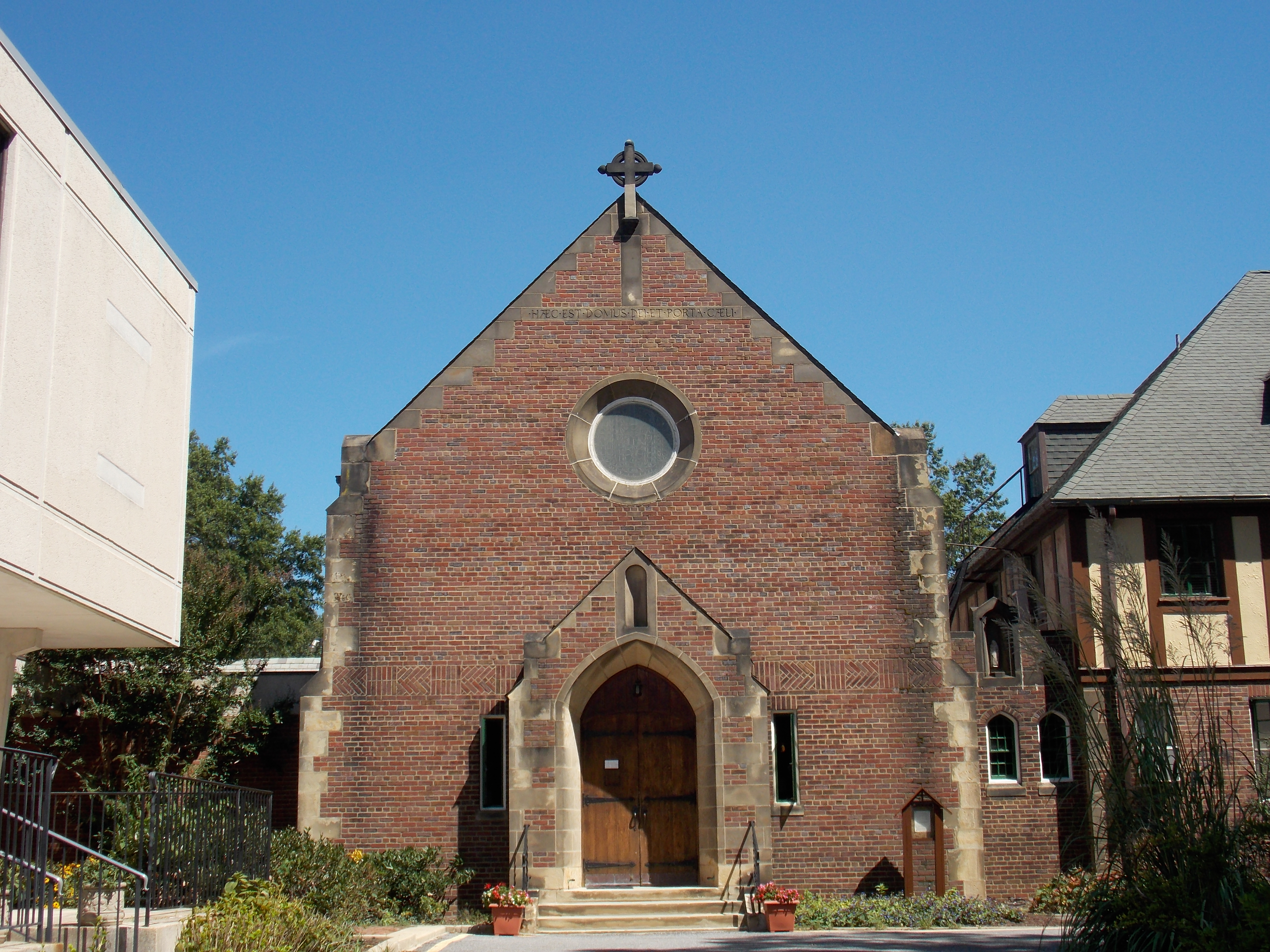 The church at St. Anselm's Abbey in Northeast Washington, D.C.